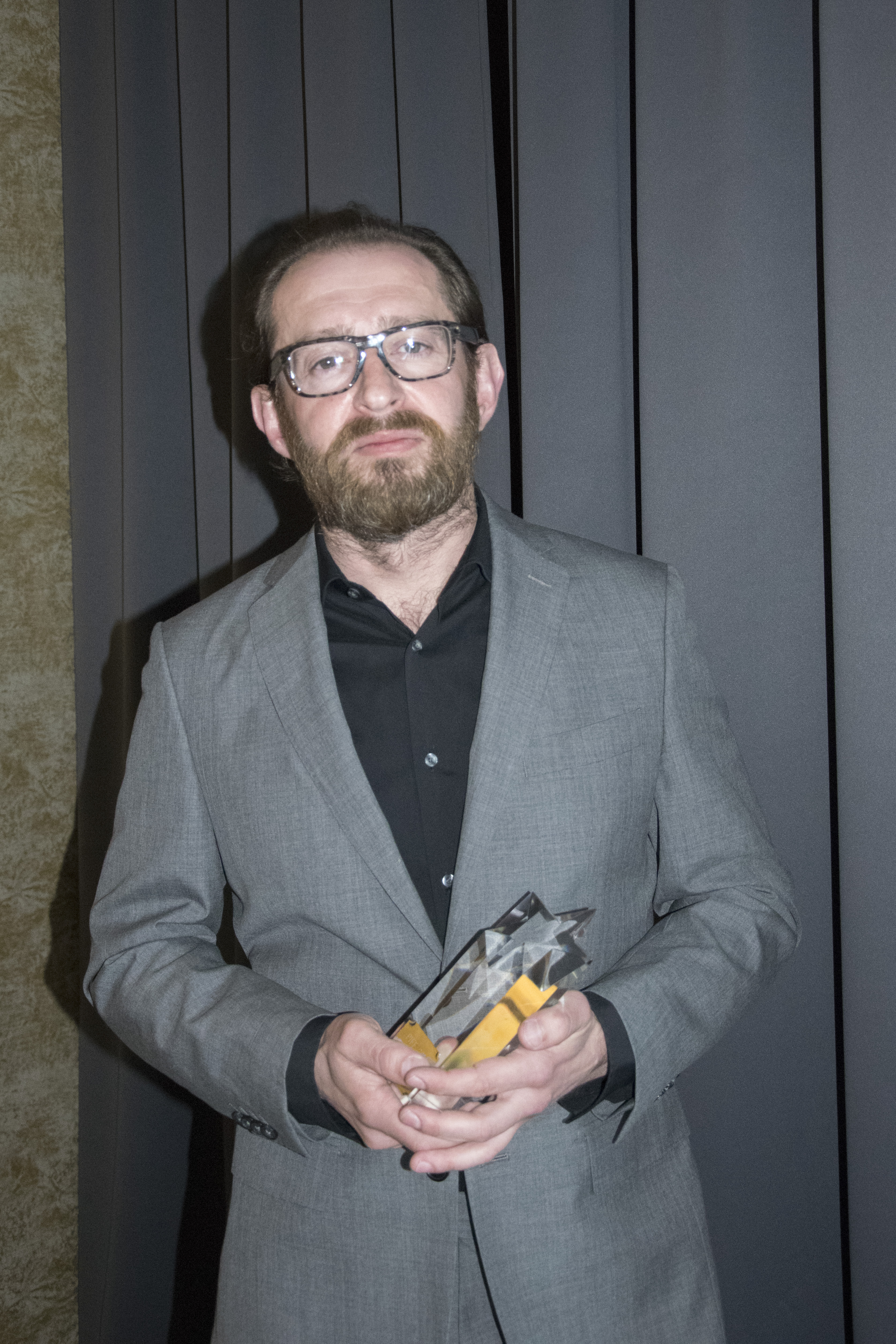 Konstantin Khabensky receiving an honorary award for achievements in cinema from Prague Independent Film Festival, at the Czech premiere of Sobibor, 6 May, 2018